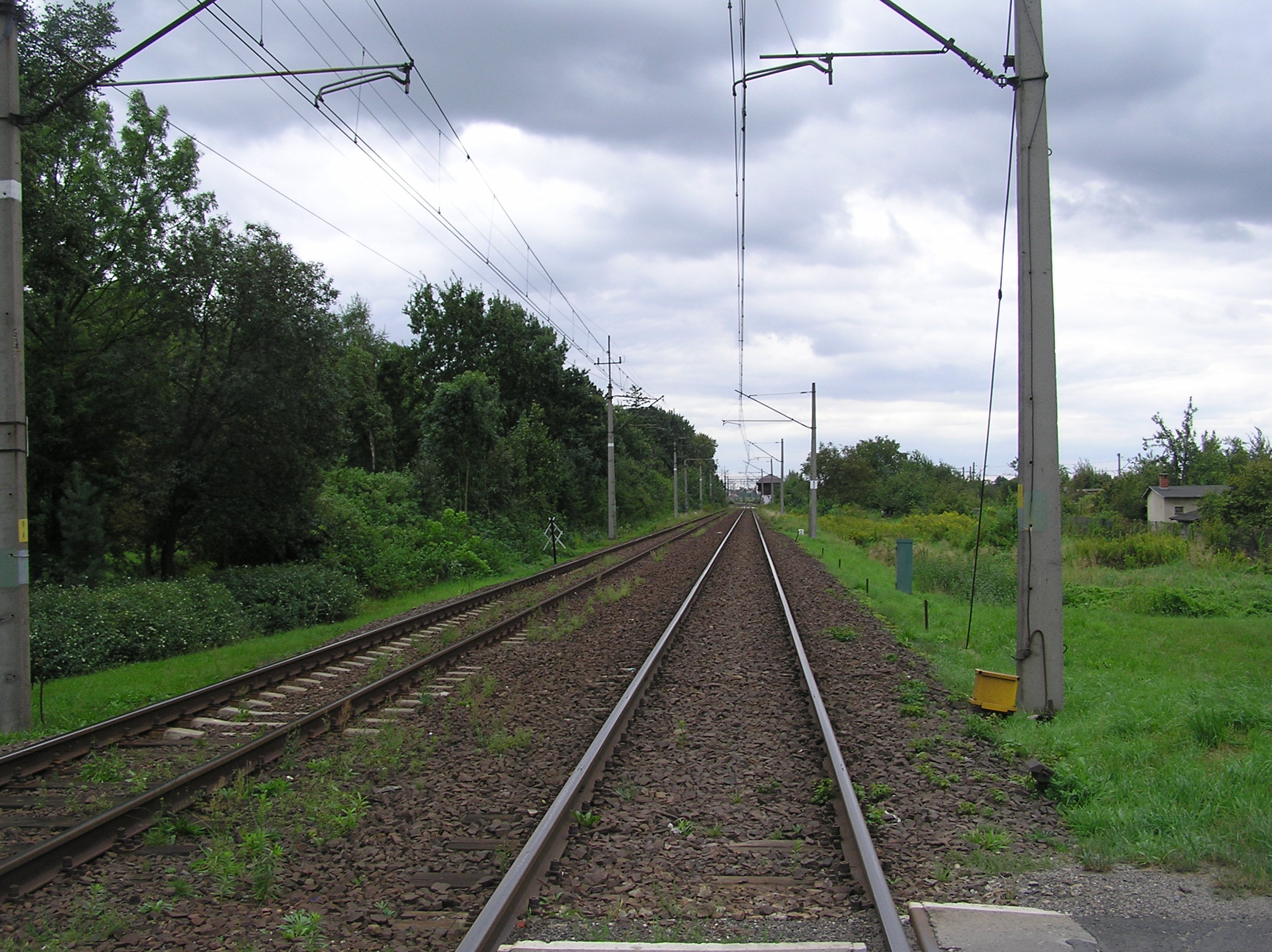 Poland, Wroclaw, Brochowski Park, Railway tracks No. 276